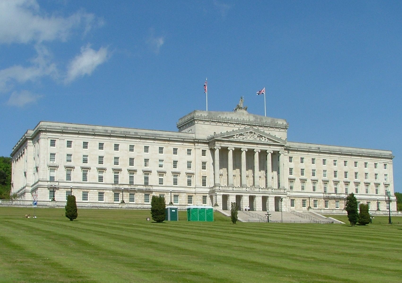 Stormont Parliament building outside Belfast, Northern Ireland